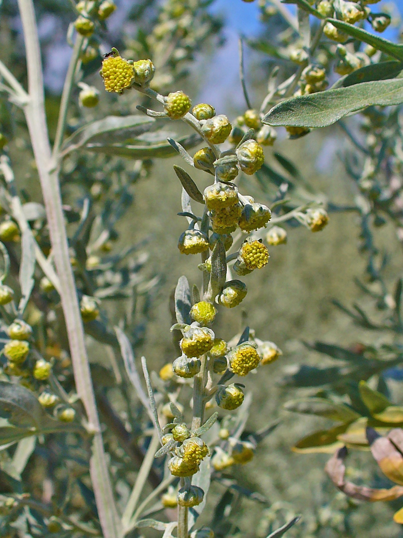 Artemisia absinthium, Asteraceae, Absinthium, Wormwood, inflorescences. The leaves and flowers are used in homeopathy as remedy: Absinthium (Absin.)